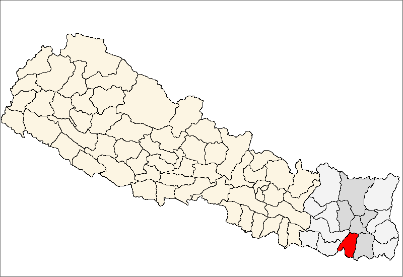 FrenchCarte de localisation dudistrict de Sunsari(wp-FR),au Népal (wp-FR).EnglishLocation map ofSunsari District(wp-EN),in Nepal (wp-EN).